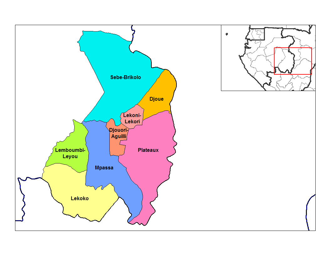 Map of the departments of Haut-Ogooue province in Gabon. Created by Rarelibra 20:20, 2 January 2007 (UTC) for public domain use, using MapInfo Professional v8.5 and various mapping resources.